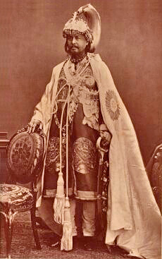 Photograph of Jang Bahadur (1816-1877), prime minister of Nepal 1846-77 (Private collection of Dr. Sumerendra Vir Singh Chauhan, great great grandson of Maharaja Jung Bahadur)